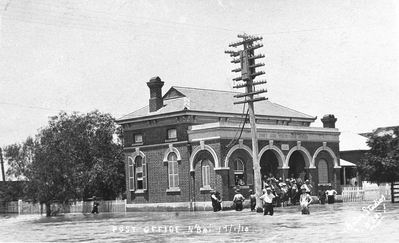 Format: Photograph Find more detailed information about this photograph: .au/item/itemDetailPaged.aspx?itemID=388404 Search for more great images in the State Library's collections: .au/search/SimpleSearch.aspx From the collection of the State Library of New South Wales